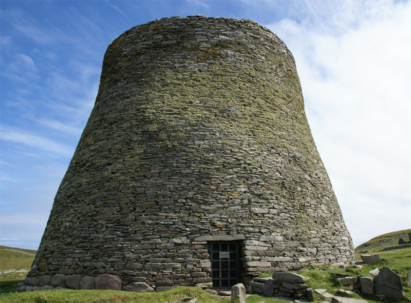 Mousa Broch, Shetland, Scotland - entrance